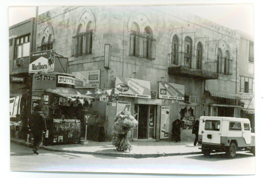 Beer Sheva - Beer Sheva KKL Street, Main Street in the city during the past